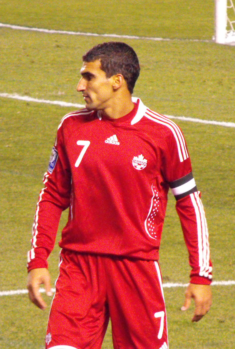 Taken at the Canada - Mexico World Cup qualifying match in Edmonton, Alberta on October 15, 2008. By uploader.